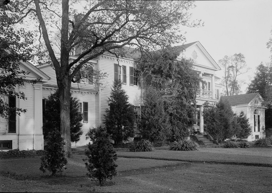 Belle Grove, Rappahannock River, Port Royal, Caroline County, VA HABS VA,50-POCON.V,2--1